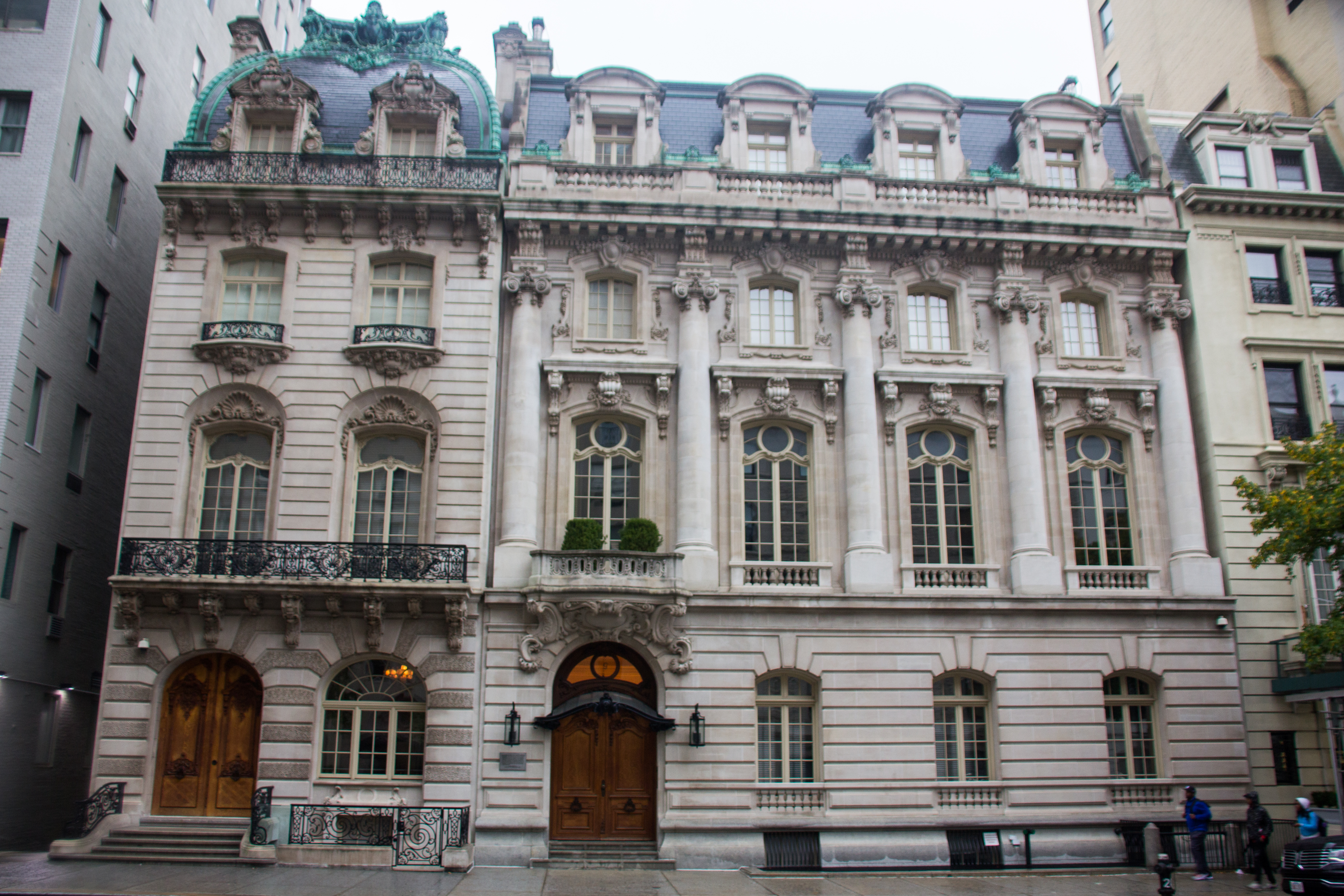 At New York City, USA E 72 St and Madison Av